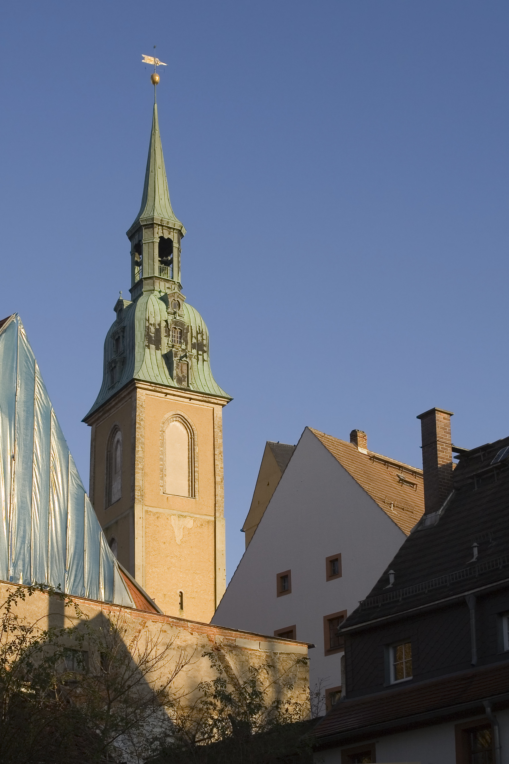 Freiberg, Saxony, Petri-Kirche